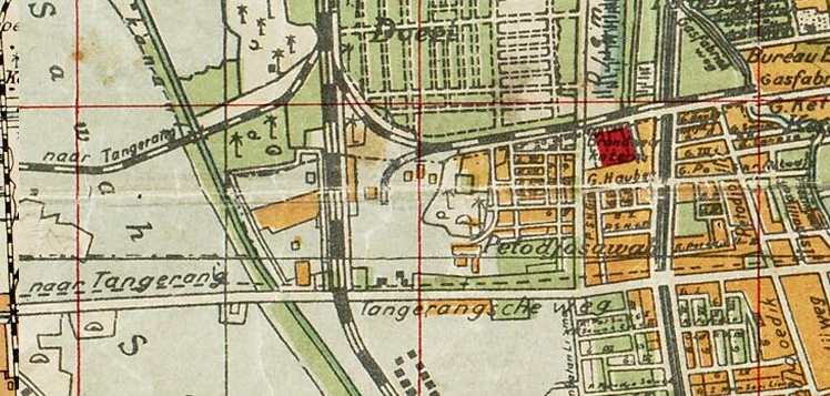 Doeri - Nederlandsch Indische Gas Maatschappij Ketapang Train Route maps at 1945